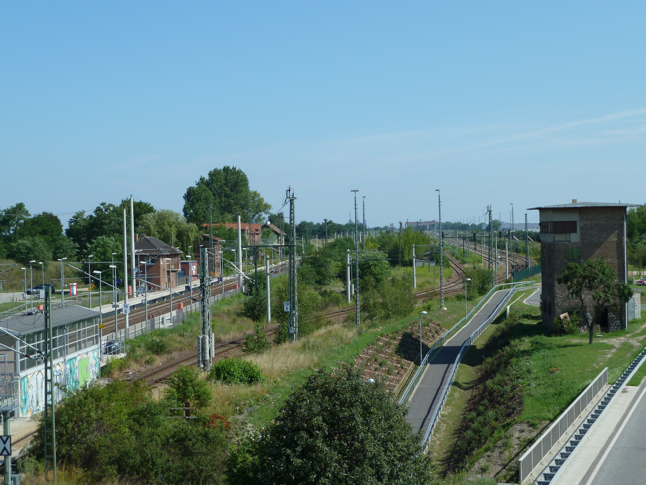 Bahnhof Großbeeren